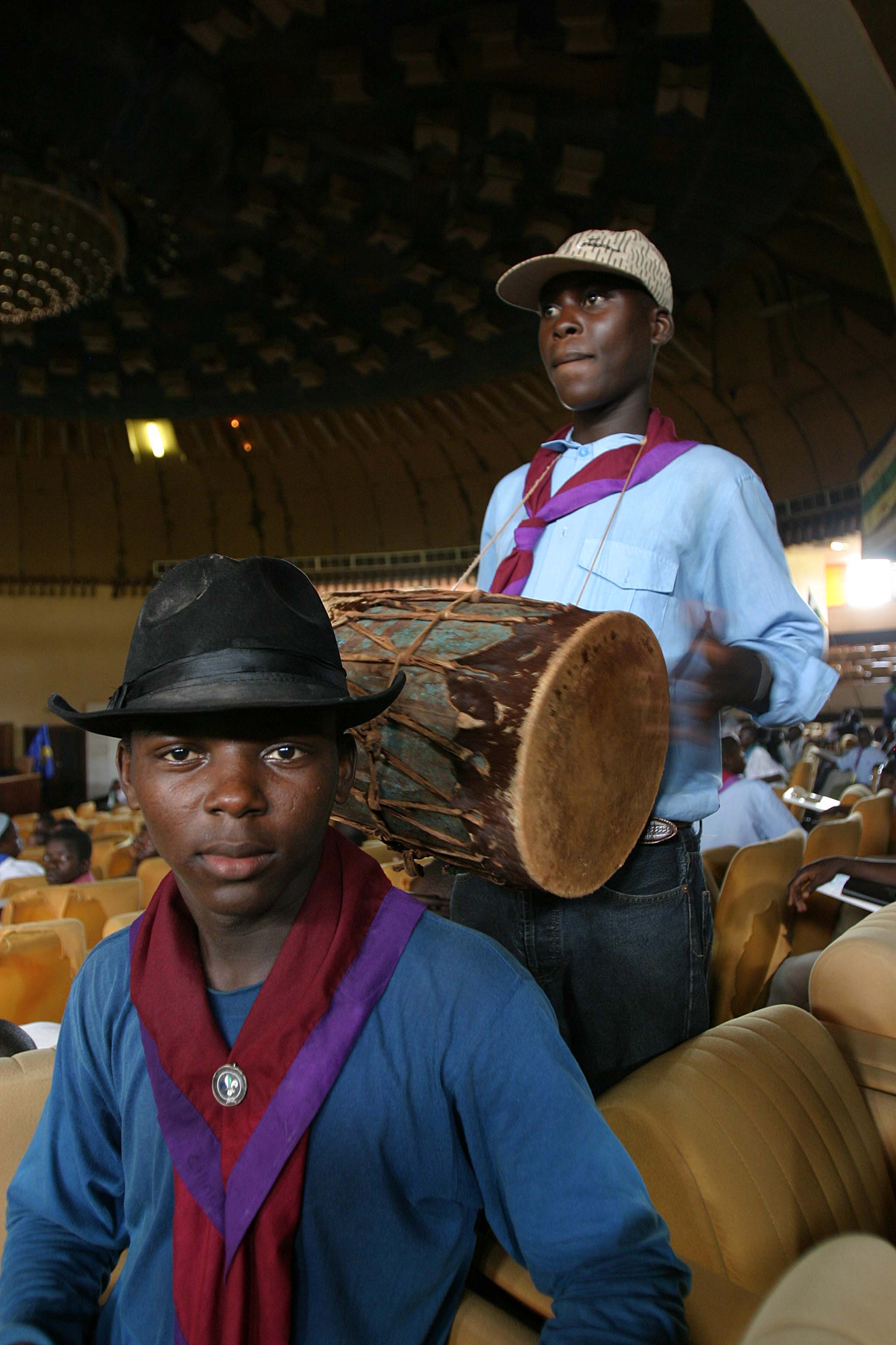 Pierre Holtz for UNICEF. Teaching scouts about HIV-AIDS, in round hall of Ministère d`Affaires Etrangères in Bangui